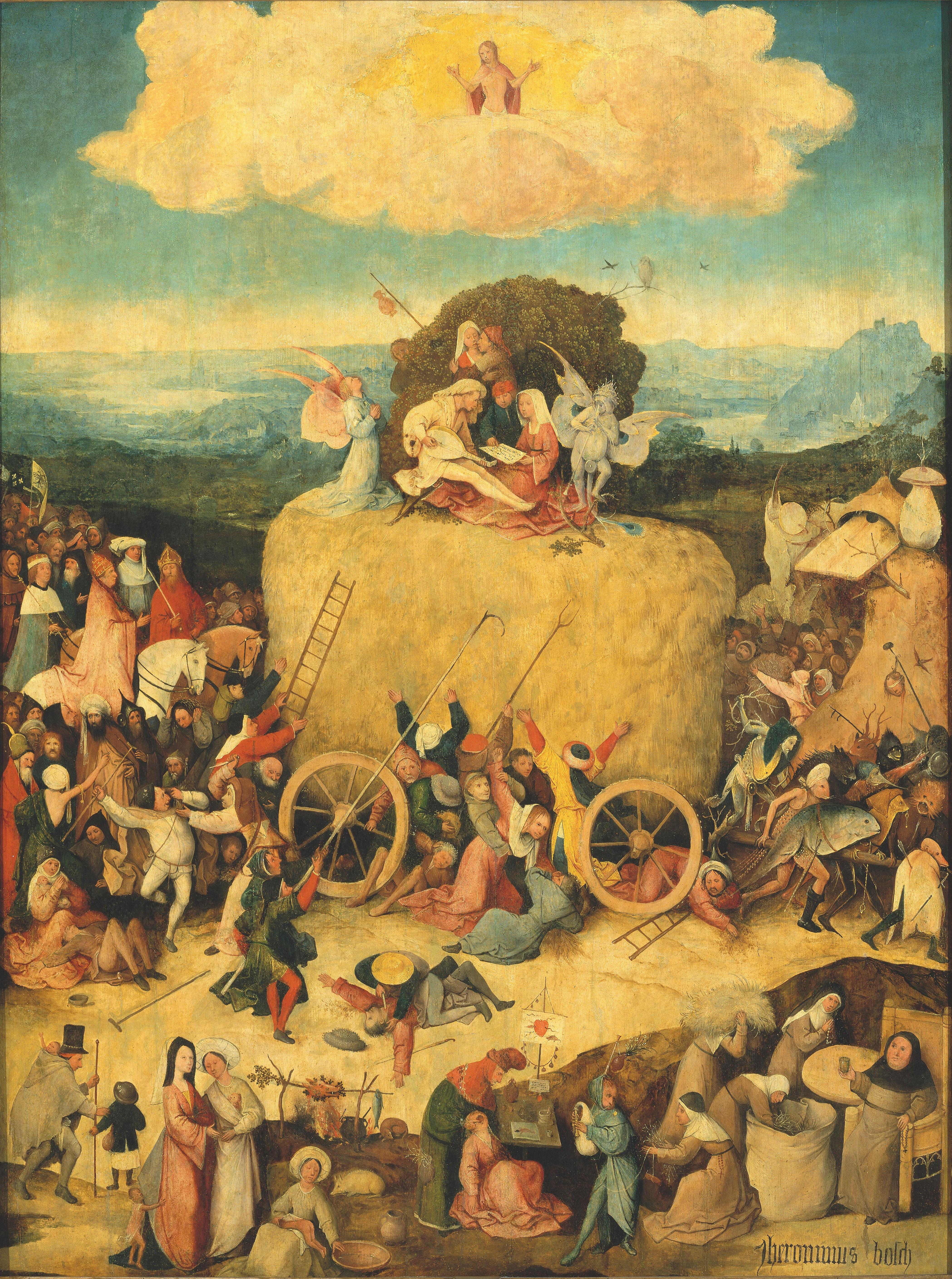 Central panel of the triptych "The Haywain" by Hieronymus Bosch: Located: Prado Museum, Madrid.